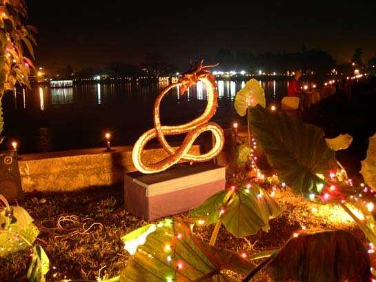 Representation of Pakhangba